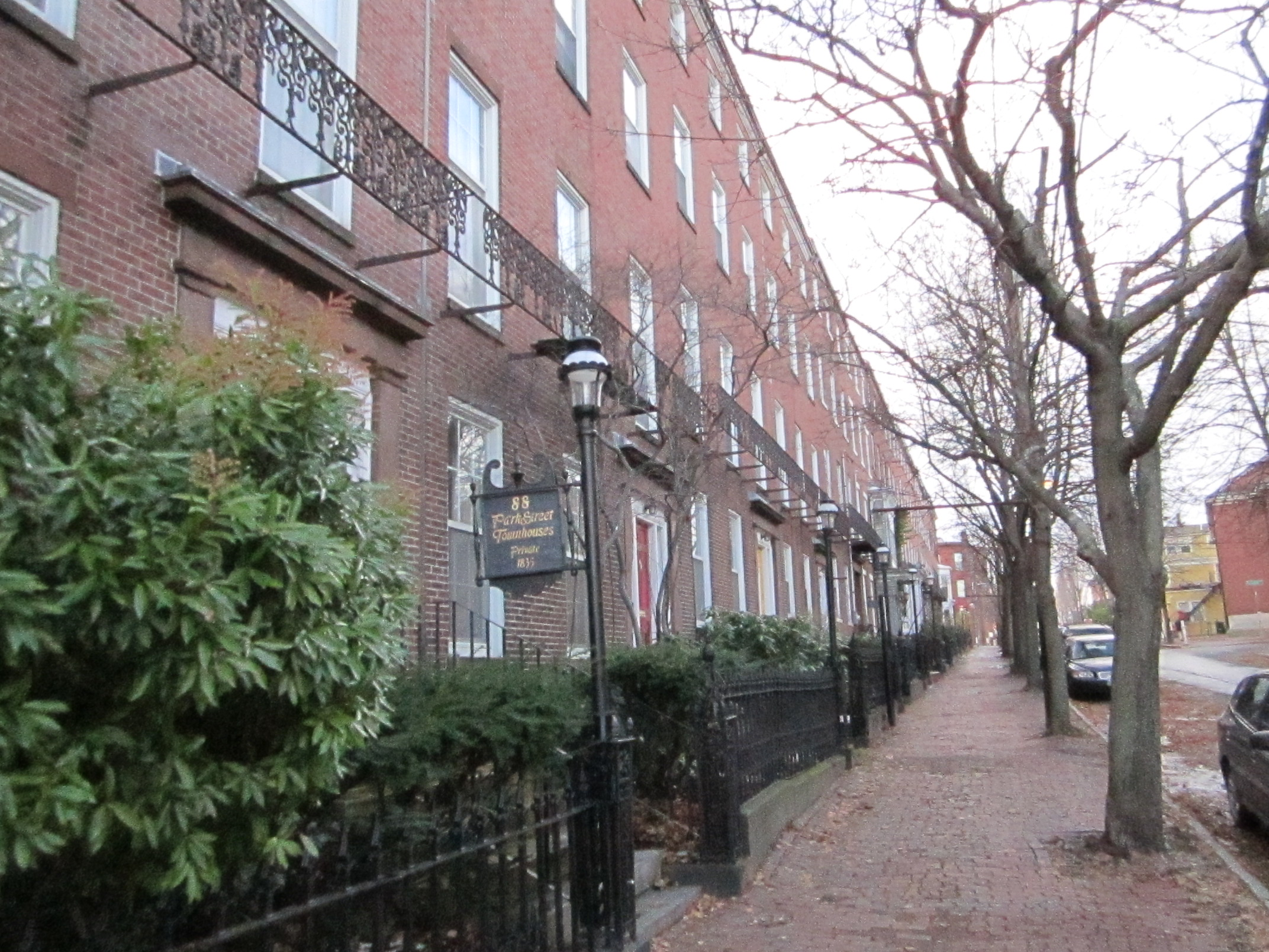 The Park Street Row Houses on Park Street in Portland, Maine